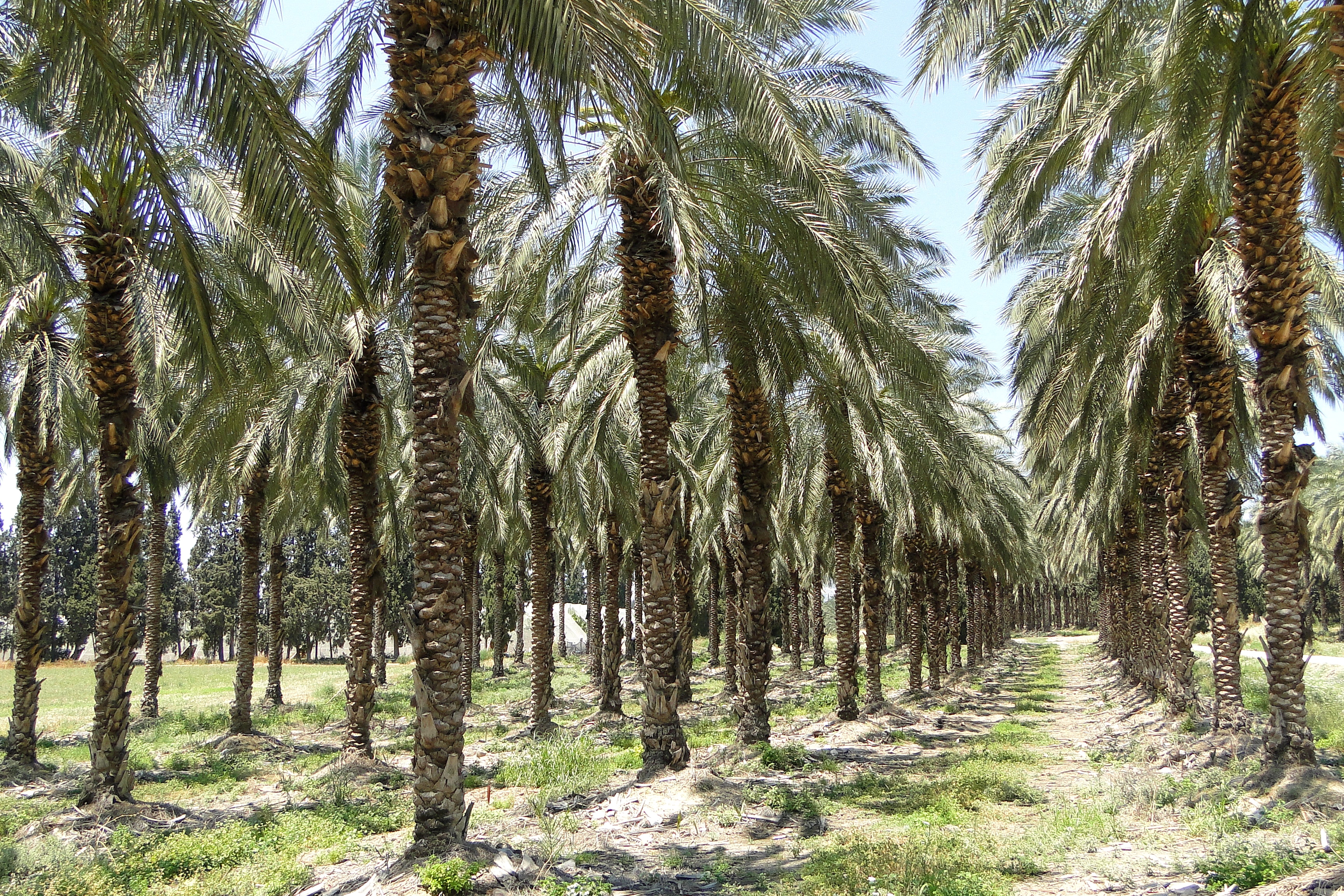 Palm Oil Plantation - Near Tiberias - Galilee - Israel Palm Oil Plantation - Near Tiberias - Galilee - Israel (5710683290).jpg